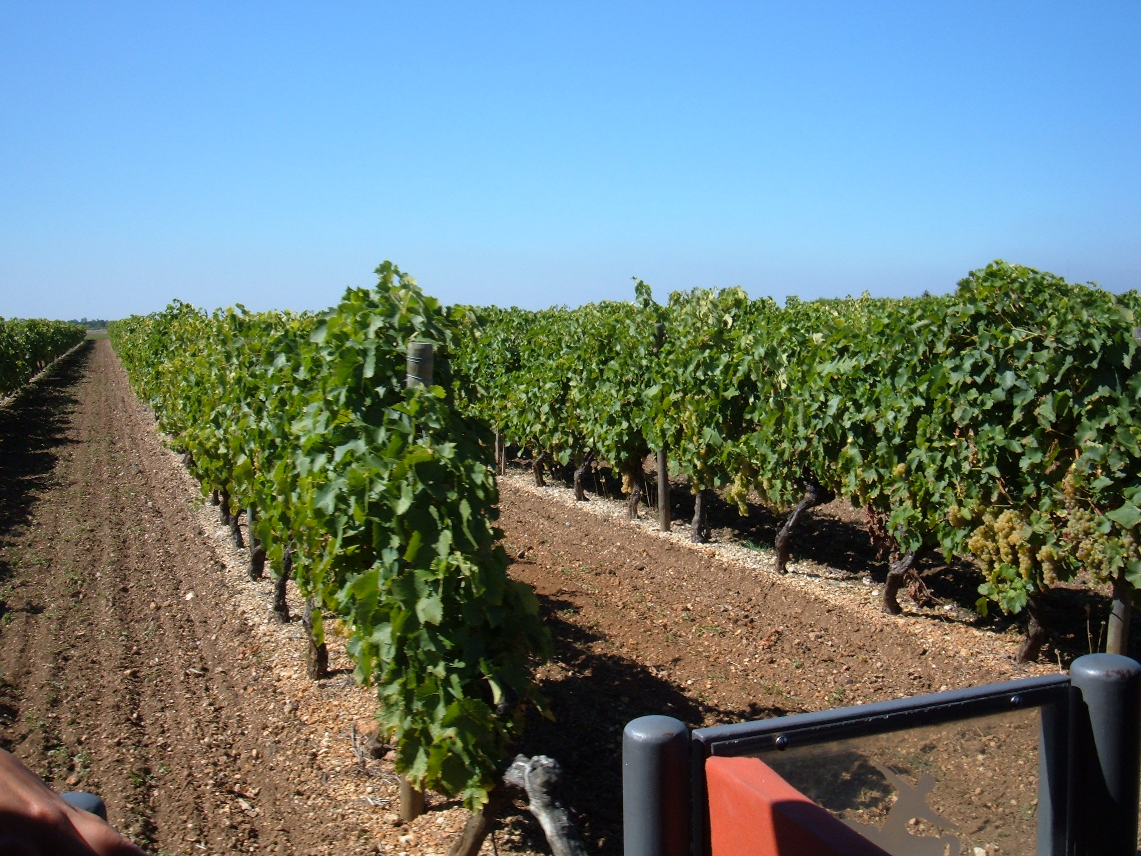 Vineyards at the Rémy Martin Estate in Merpins, France.